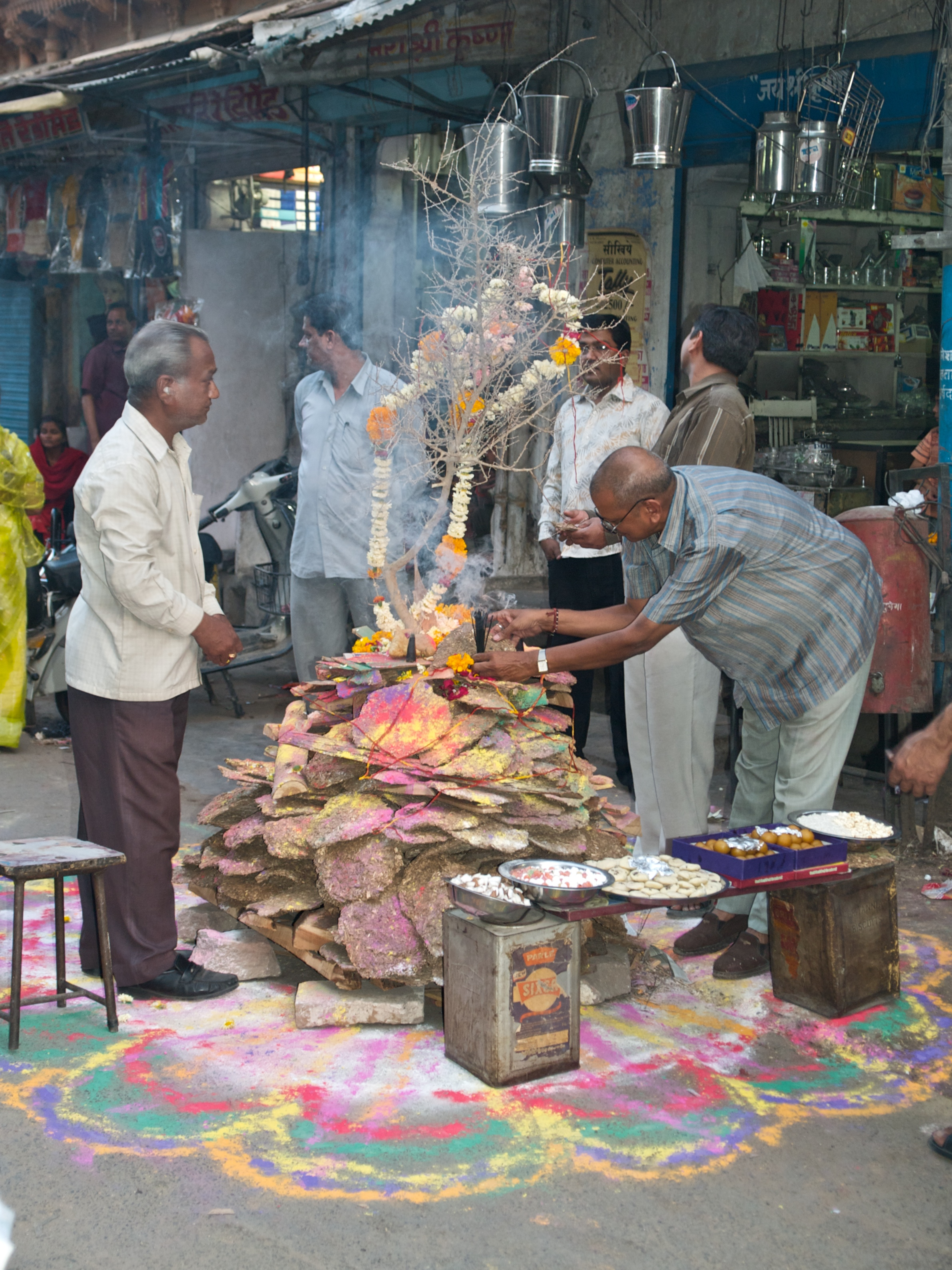 Holika Dahan preparations, Jodhpur, Rajasthan.